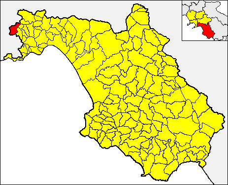 Locator map of the municipality of Scafati (red) within the Province of Salerno